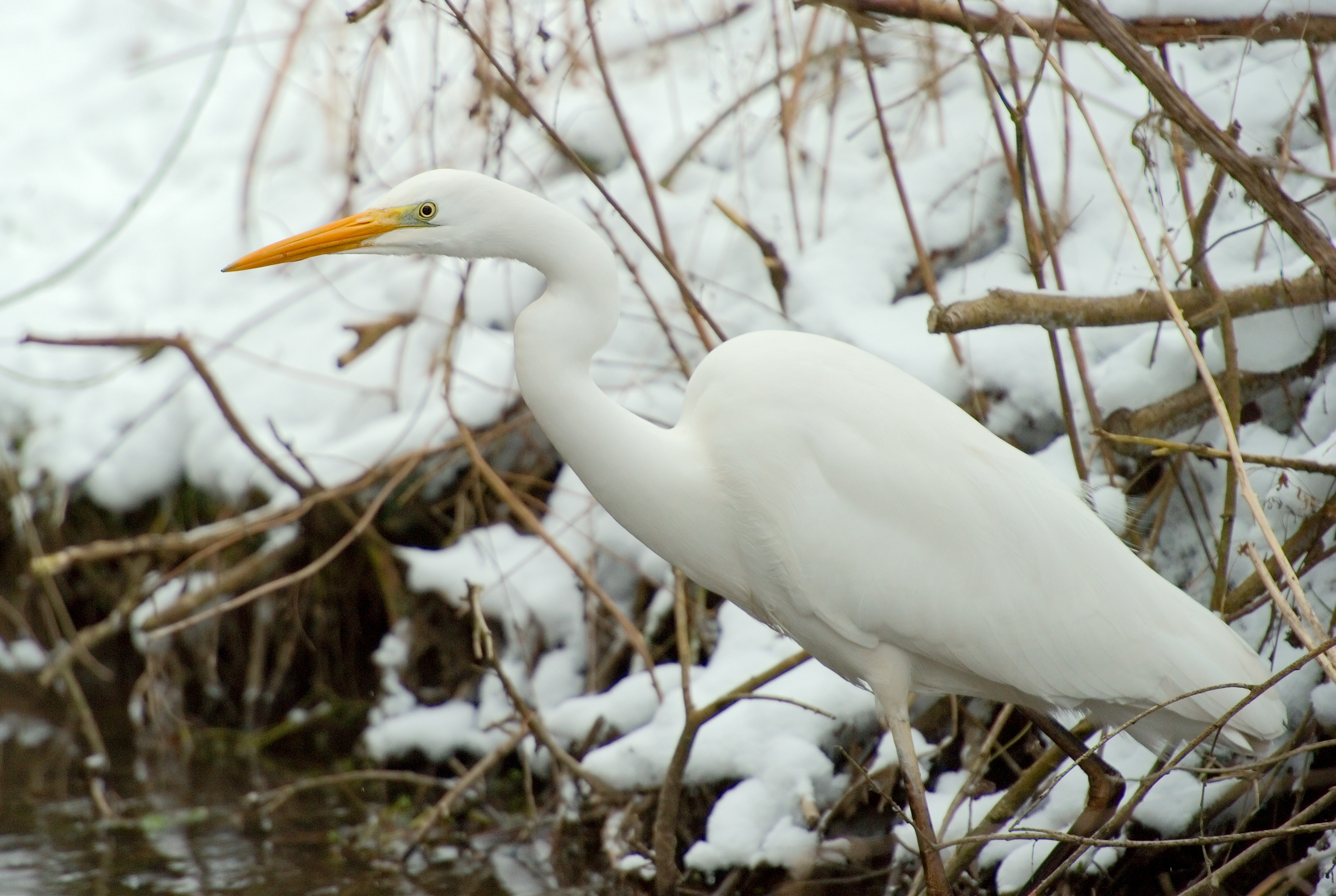 Great Egret (Ardea alba) taken at Hamois (Belgium)